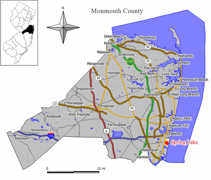 Source: Jim Irwin